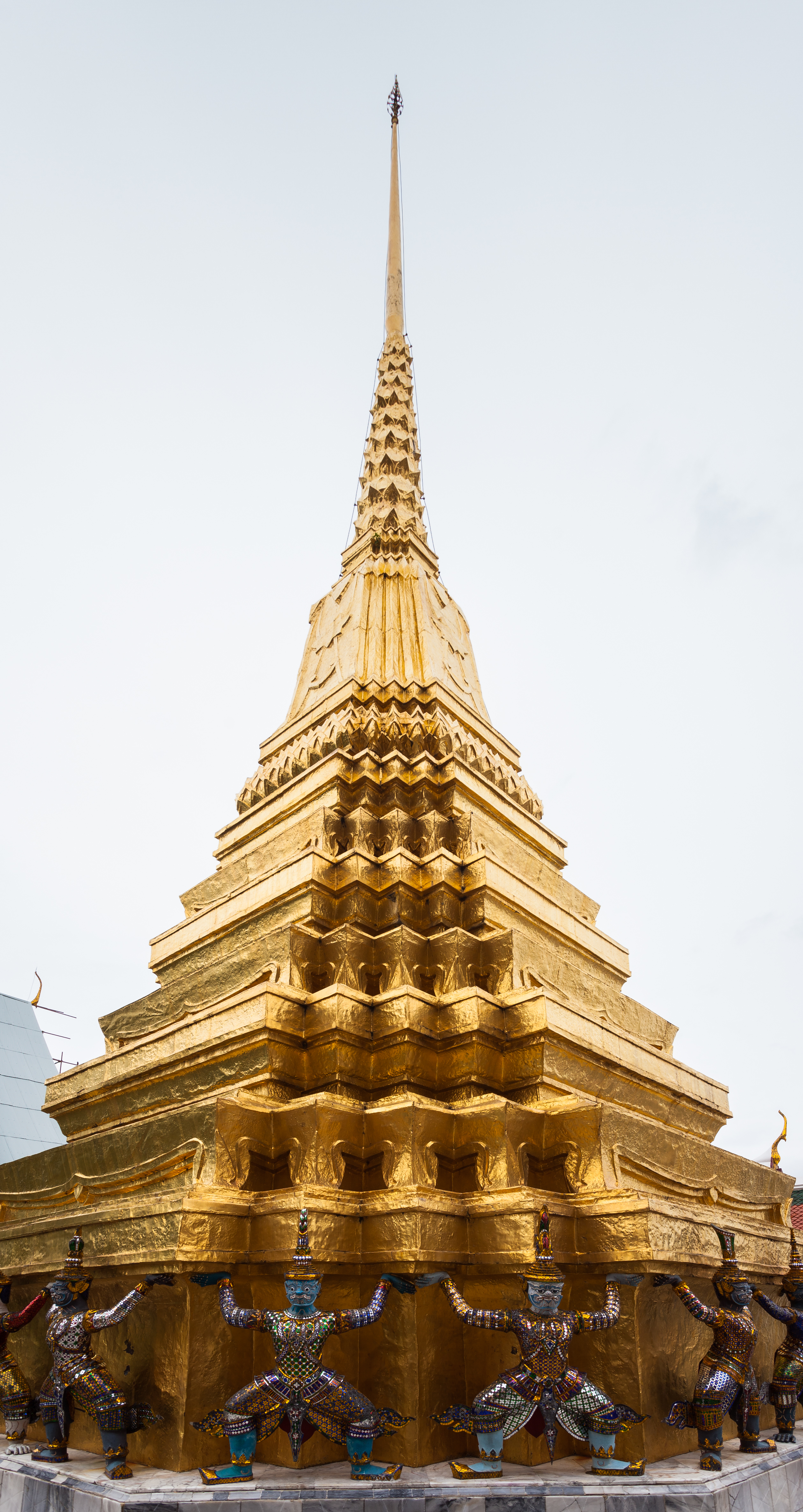 Grand Palace, Bangkok, Thailand